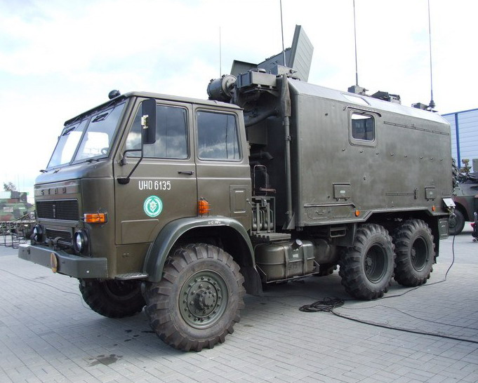 Polish Army Star-266 truck with ADK-11 equipment special body in service with the 21st Podhale Rifles Brigade